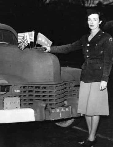 This 1944 U.S. Army photo is captioned "Kay Summersby, an Irish girl from County Cork, is mighty proud of the company she keeps, for there is always one important Allied leader behind her when she takes the wheel. Attached to the American Forces as General Dwight Eisenhower's personal driver when he first came to England, she has been driving him ever since over roads in North Africa, Tunisia, Italy, and now England."